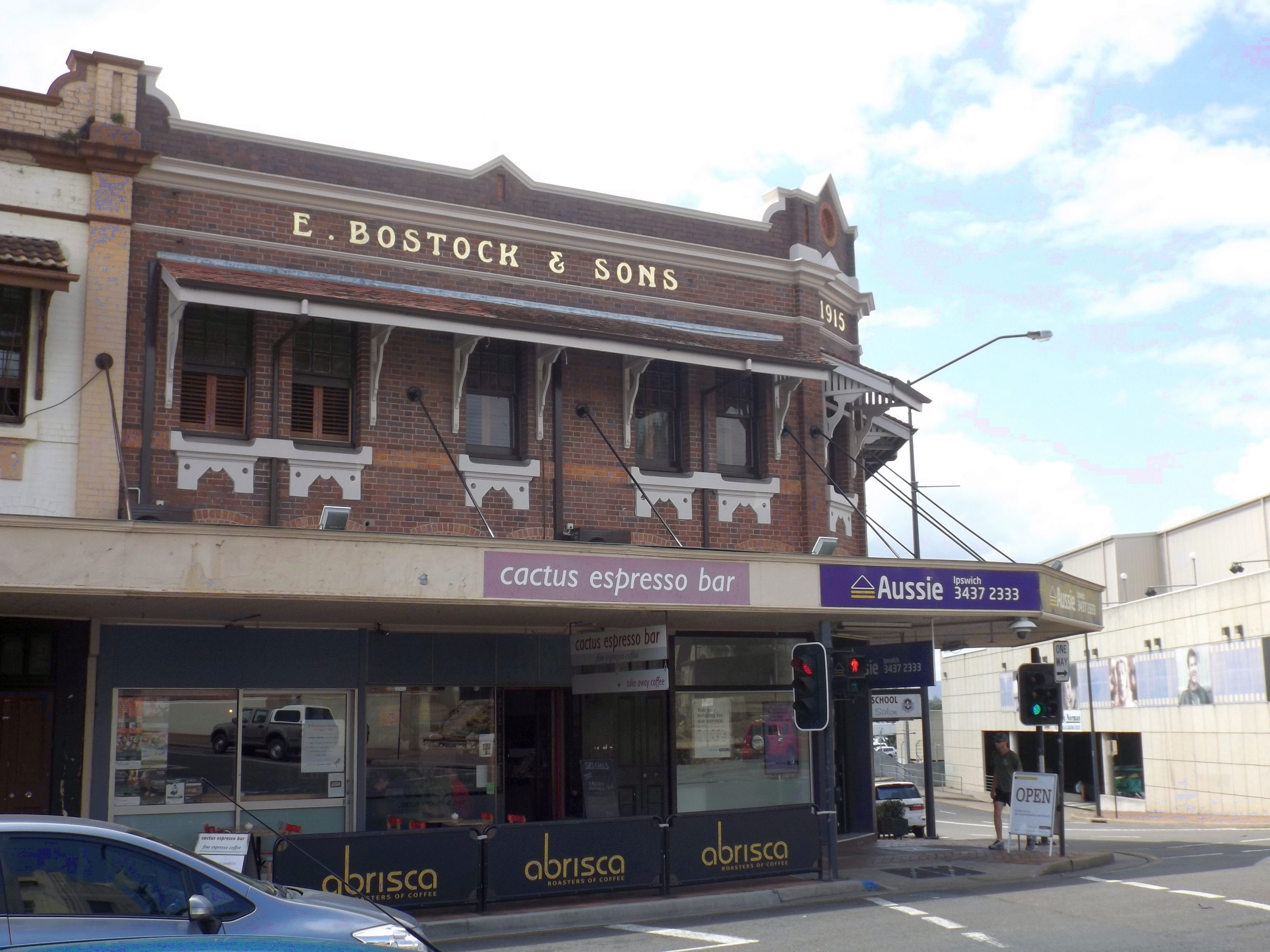 Photo of the Bostock Chambers office building at Ipswich, Queensland, Australia.